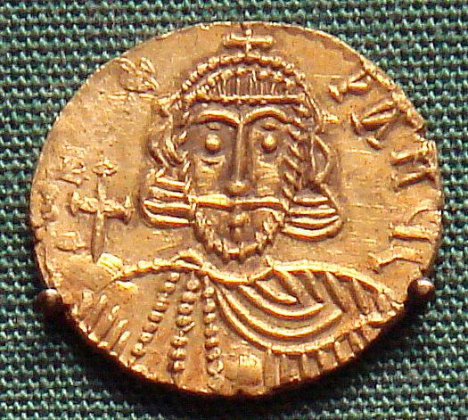 Leo_III_base_gold_solidus_minted_in_Rome